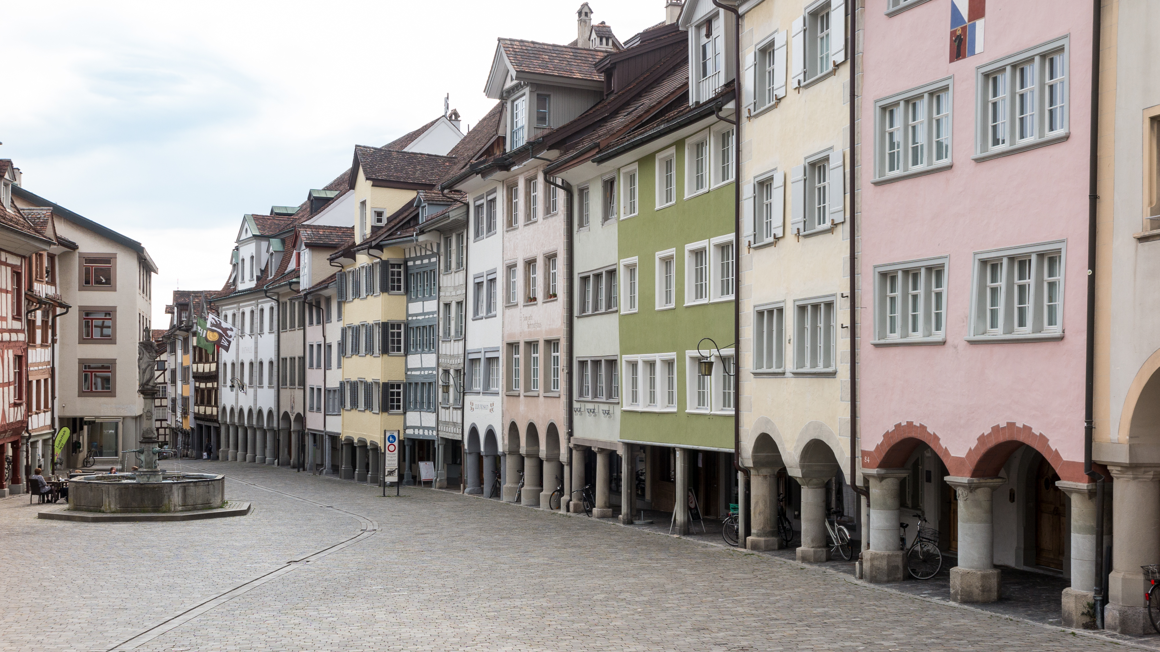 Historic buildings in the old town of Wil, canton of St. Gallen, Switzerland